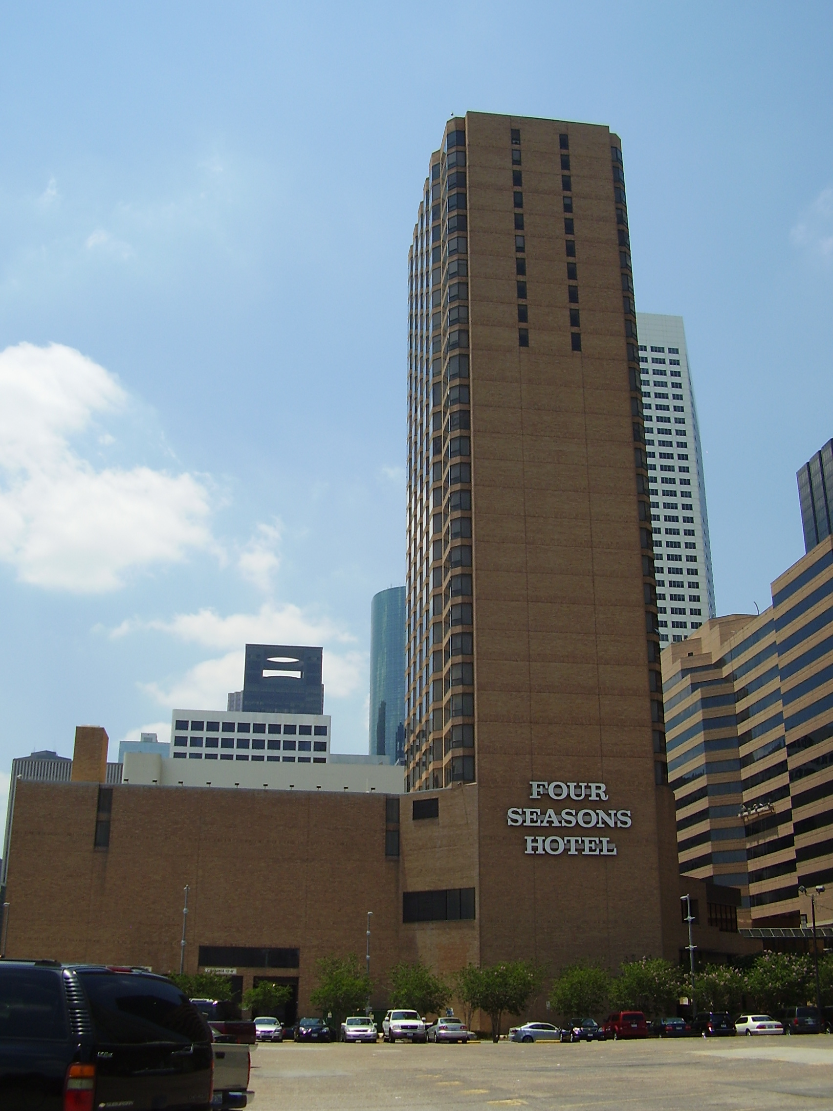 Four Seasons Hotel Houston - Downtown Houston - Also includes the Four Seasons Place, apartments